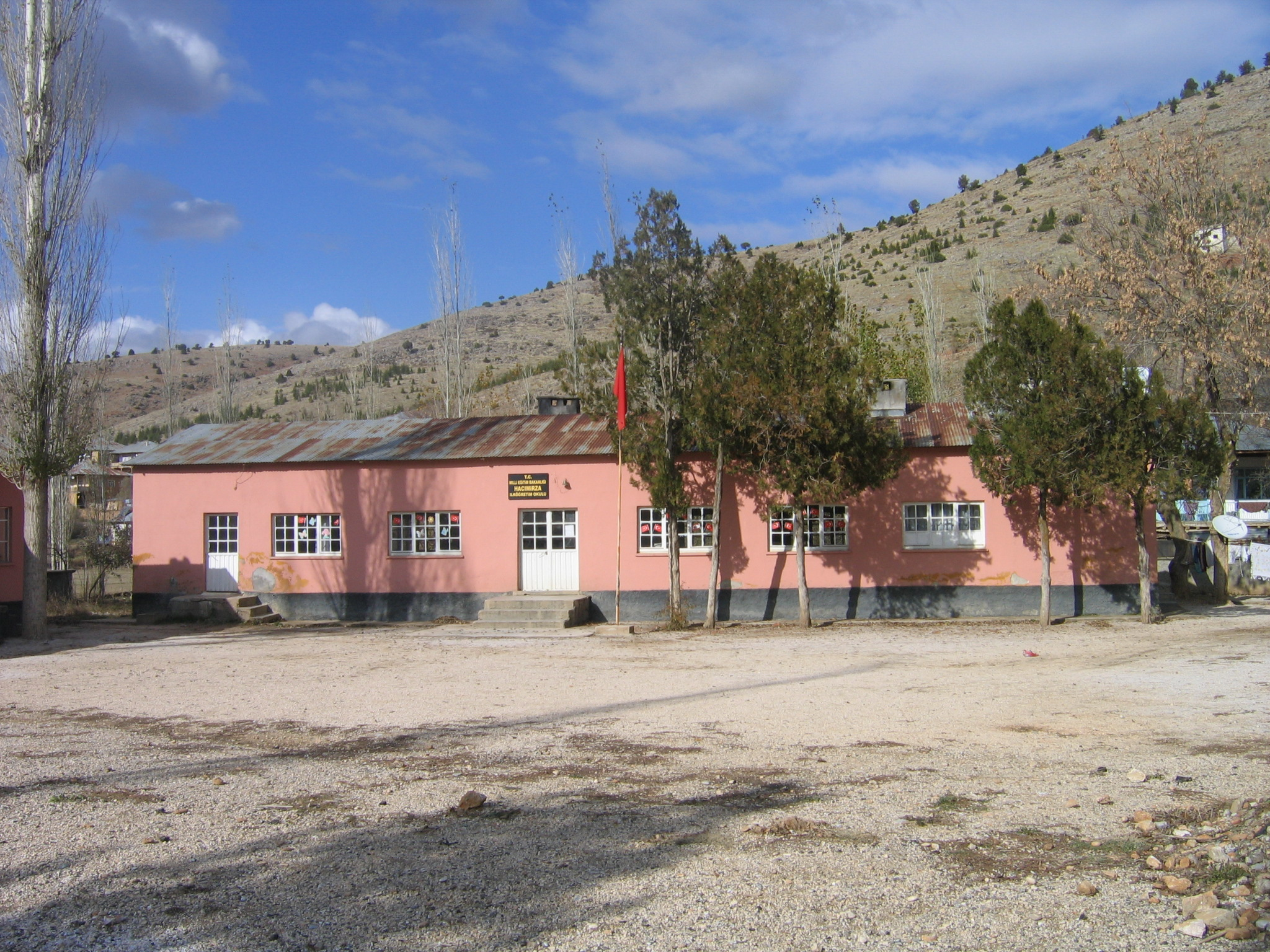 Hacımirza Elementary School, Göksun, Kahramanmaraş.